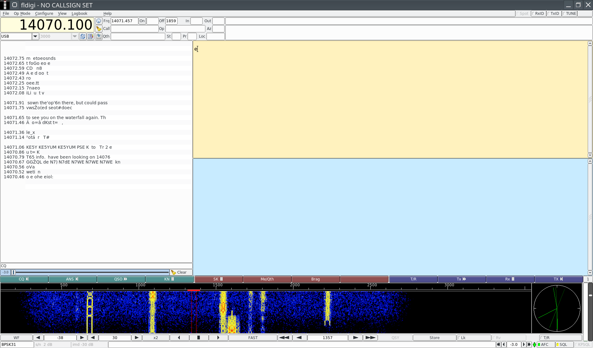 Fldigi software decoding multiple channels of PSK31